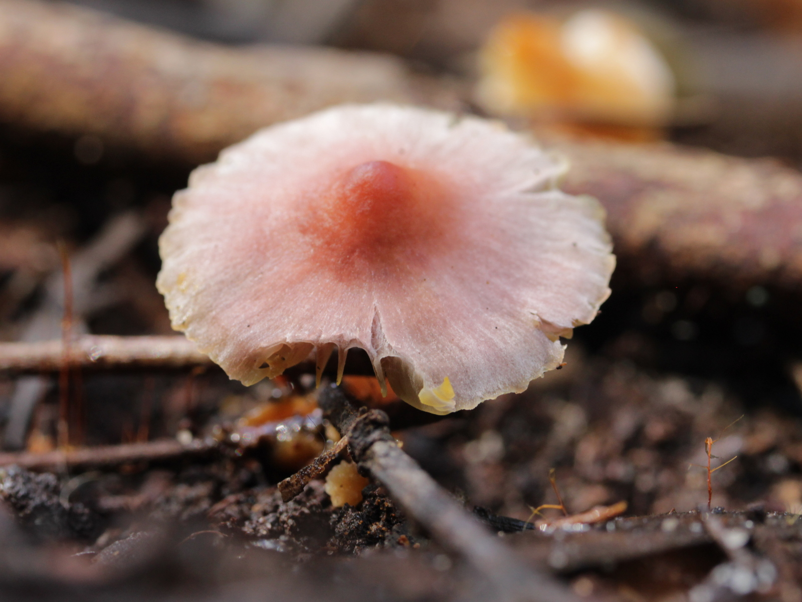 Hygrophoraceae mushroom Ferndale park 2 pinks. Chatswood NSW, Australia. Unidentified, possible new species. Casually referred to as the "Ferndale double pink". Confirmed as Humidicutis, possibly new species by the New South Wales herbarium, July 1, 2017